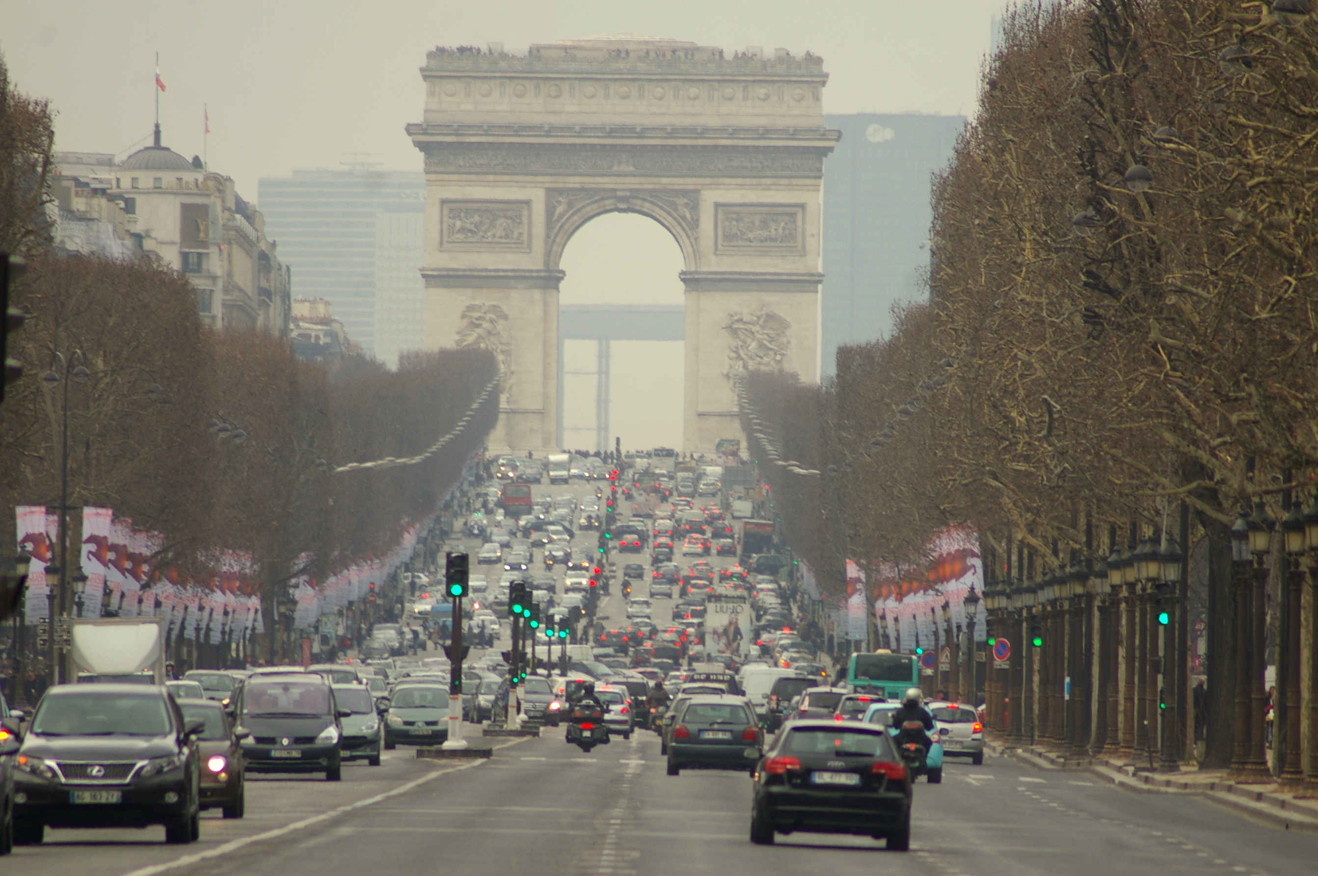 View on the Avenue des Champs-Élysées, with the Arc de Triomphe central. Photo taken on Place de la Concorde in March 2012.